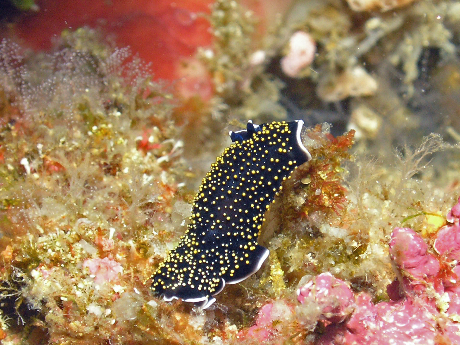 Polyclad Flatworm (Thysanozoon nigropapillosum) at Bunaken Marine Park, North SulawesiBahasa Indonesia: Cacing laut pipih (Thysanozoon nigropapillosum) di Taman Laut Bunaken, Sulawesi Utara